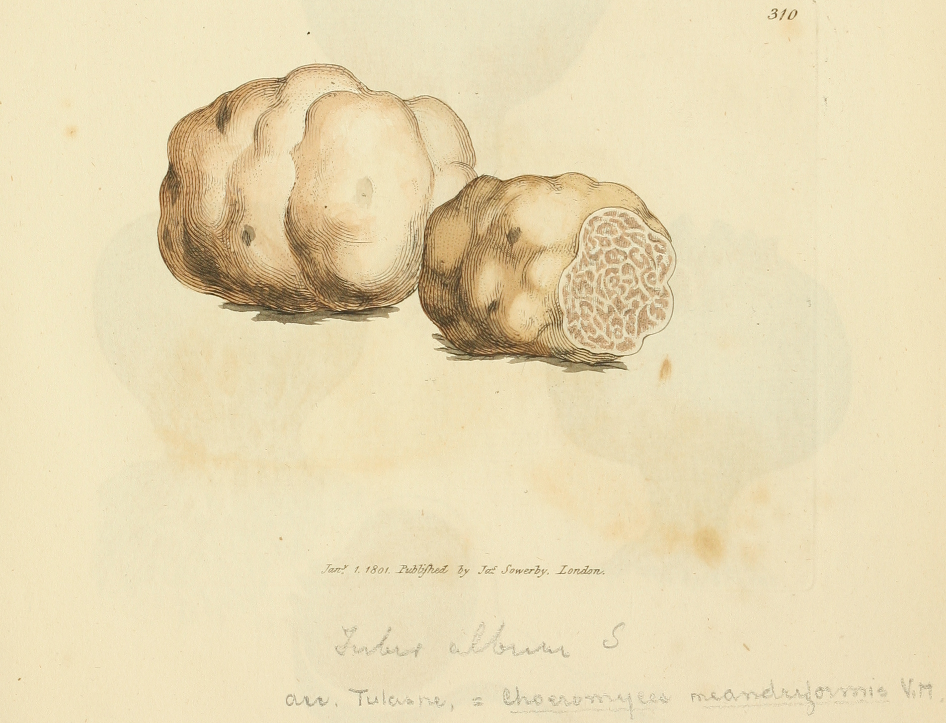 This is a plate from James Sowerby's Coloured Figures of English Fungi or Mushrooms.